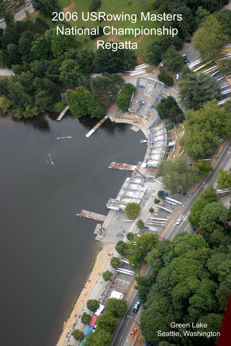 The Seattle Parks and Recreation Department's Green Lake Small Craft Center was the site of USRowing's 2006 Masters National Championship Regatta.